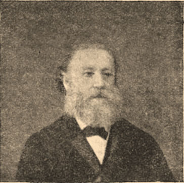 Illustration from Brockhaus and Efron Jewish Encyclopedia (1906—1913). Senior Sachs